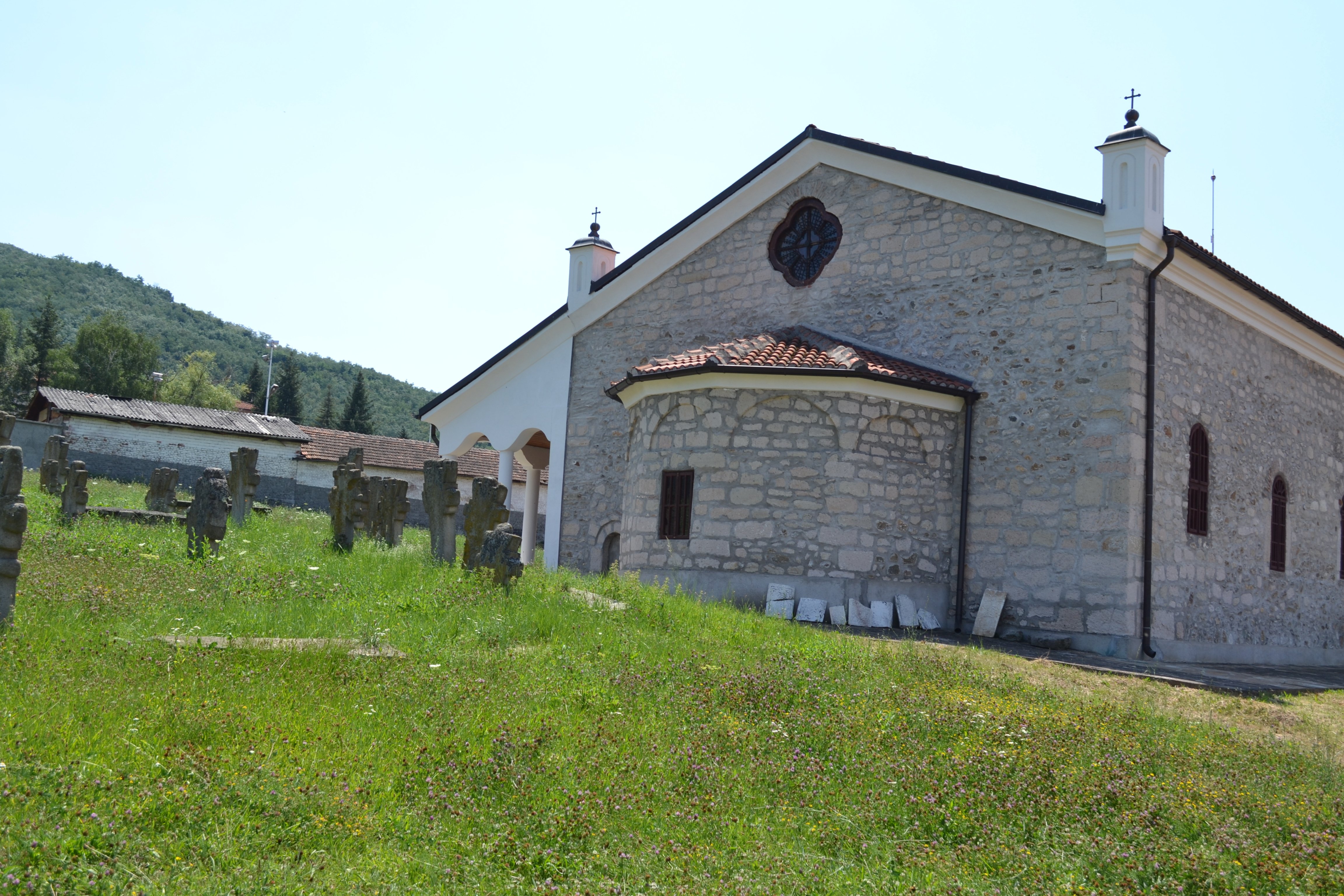 Holy Trinity Church Vlasotince